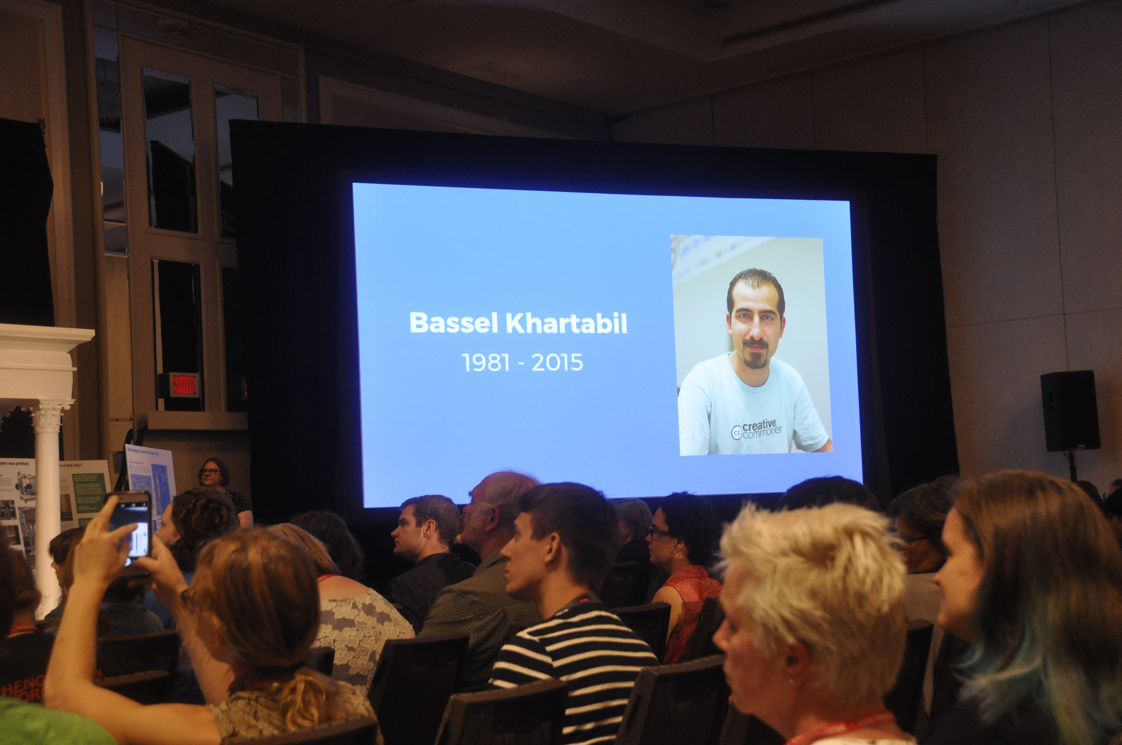 Wikimania 2017 Day 1: Slide about Bassel Khartabil during Opening ceremony